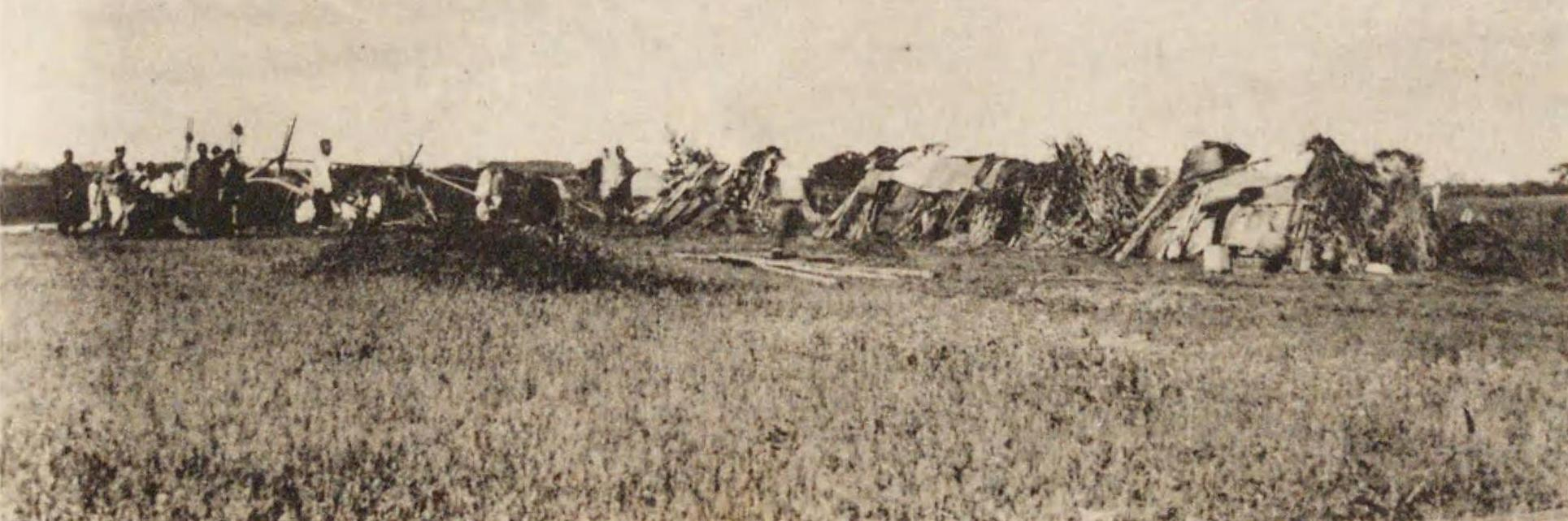 Koreans village in Wangpaoshan.